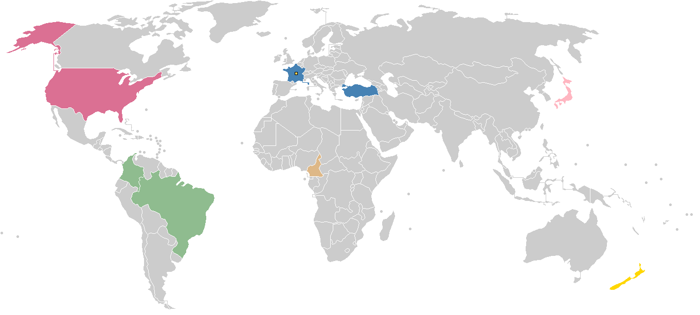 Map of participating countries.